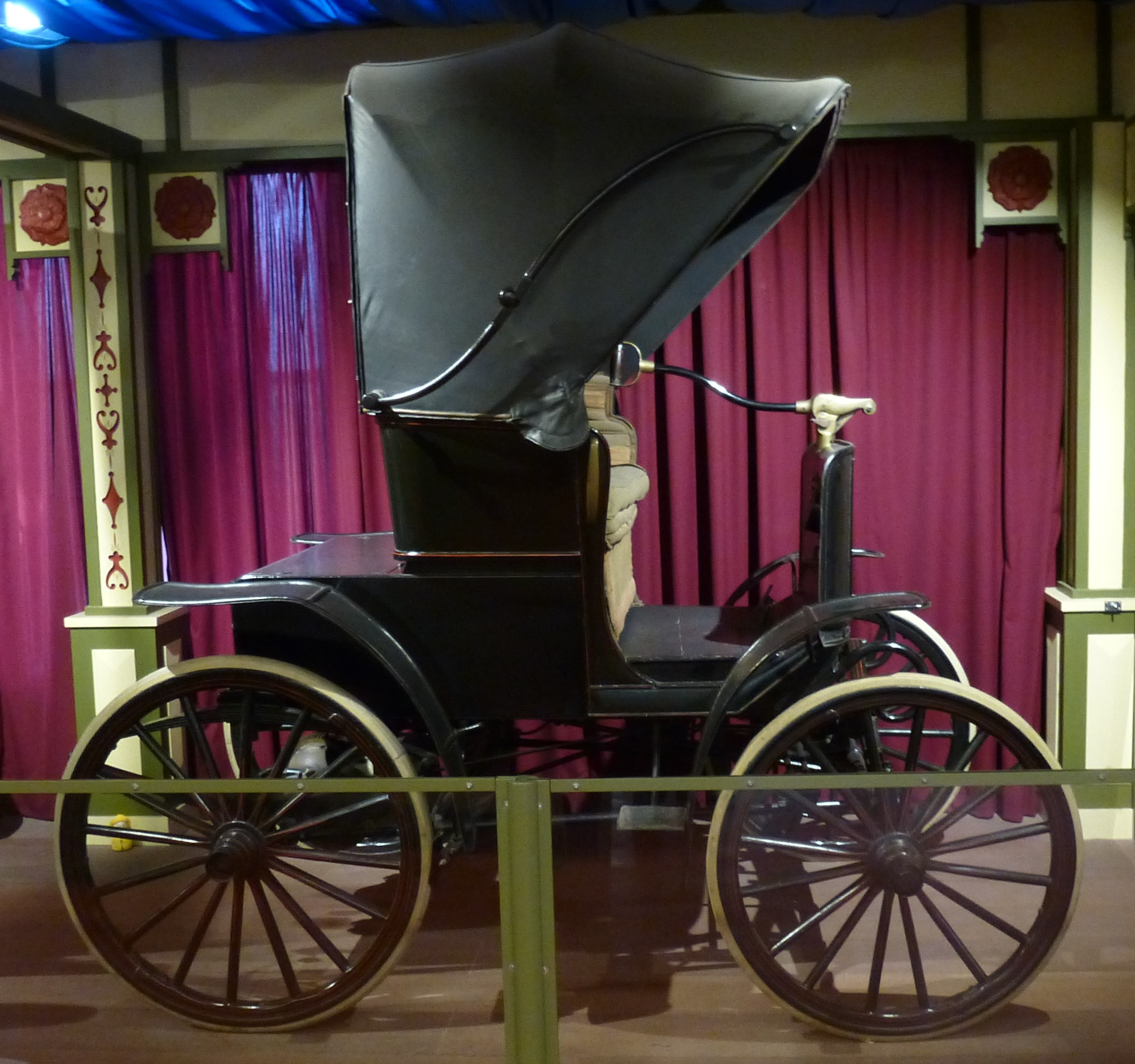 Sperry 1901